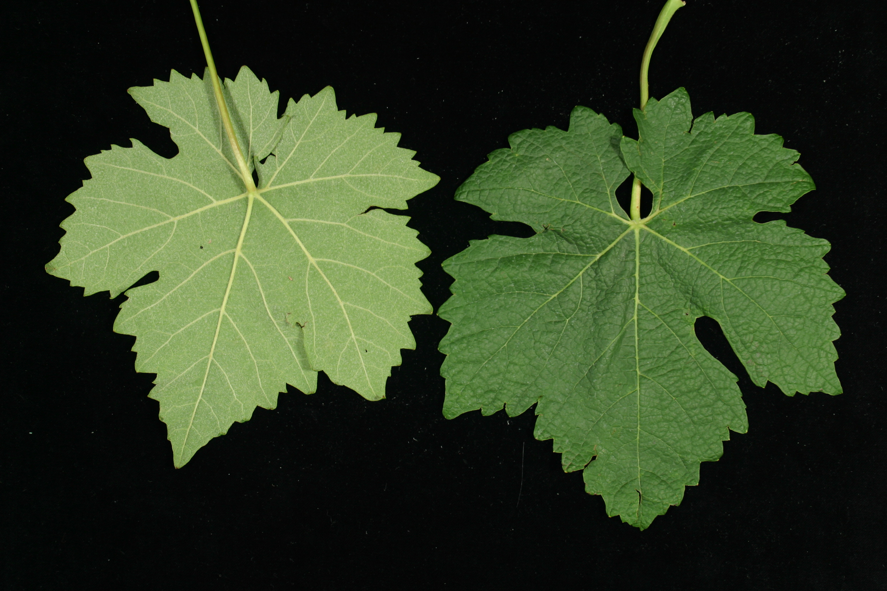 Mature leaf of Barbera Nera